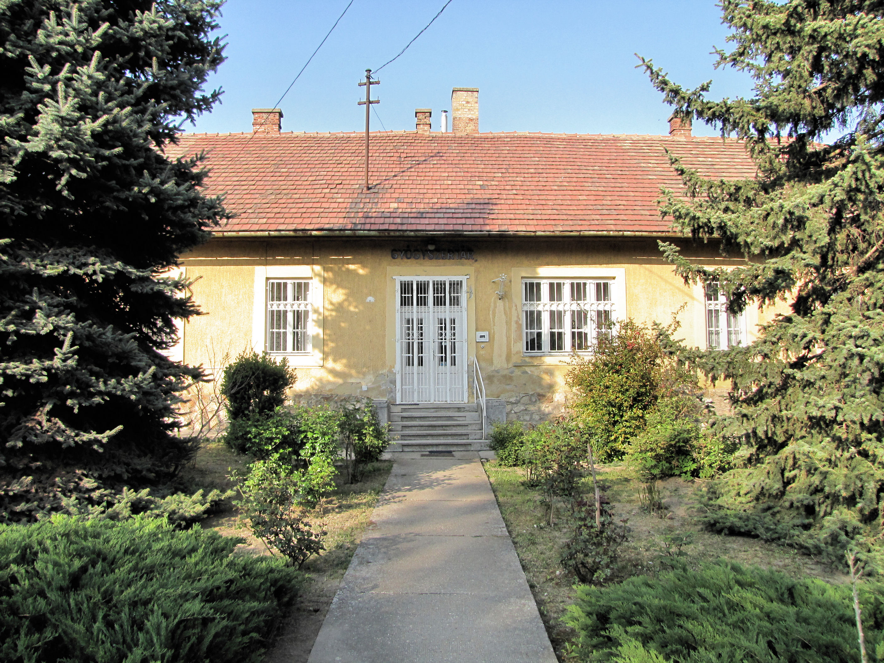 Pharmacy, Előszállás.